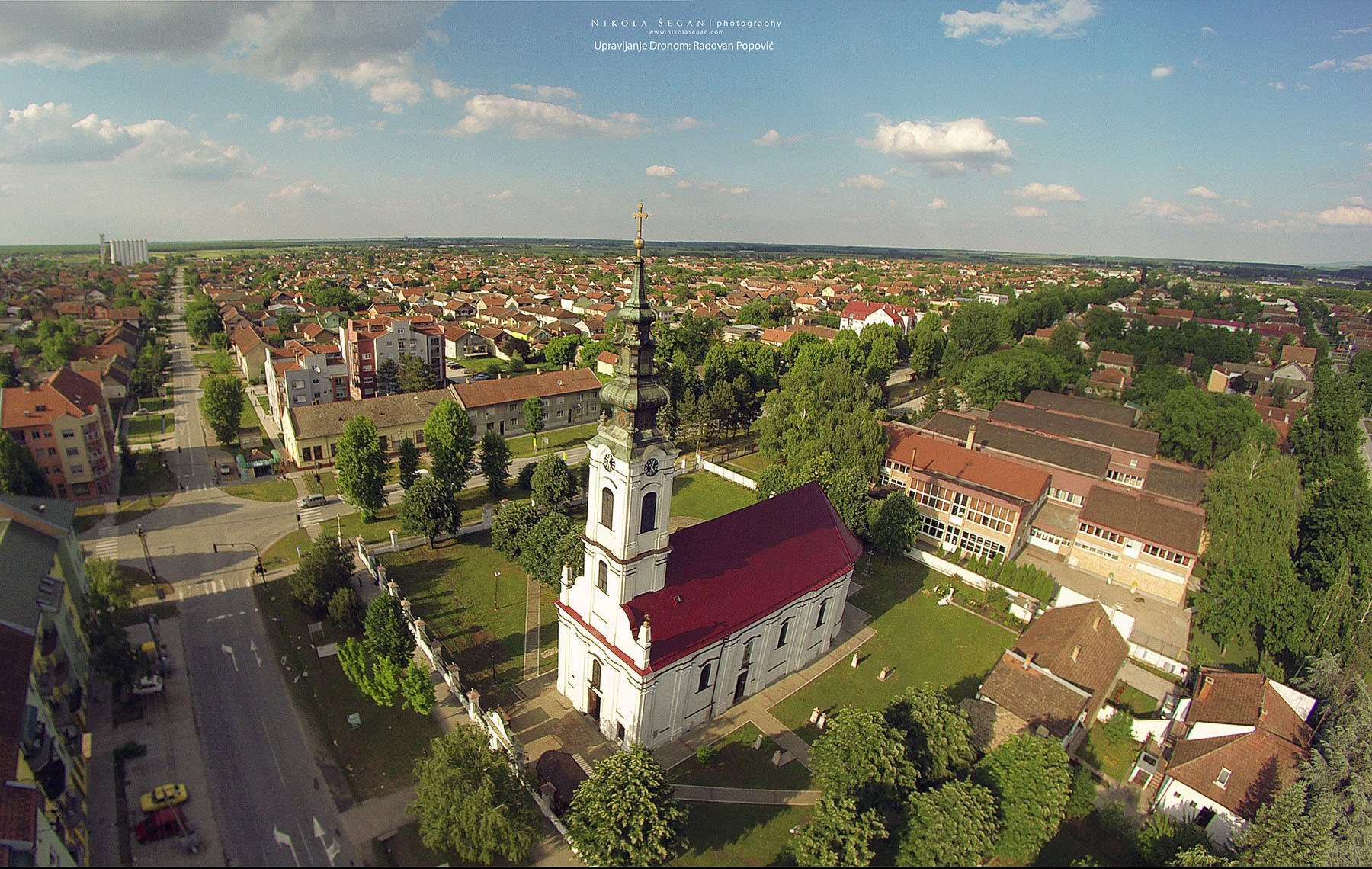 Бачка Паланка - побратим Калуша